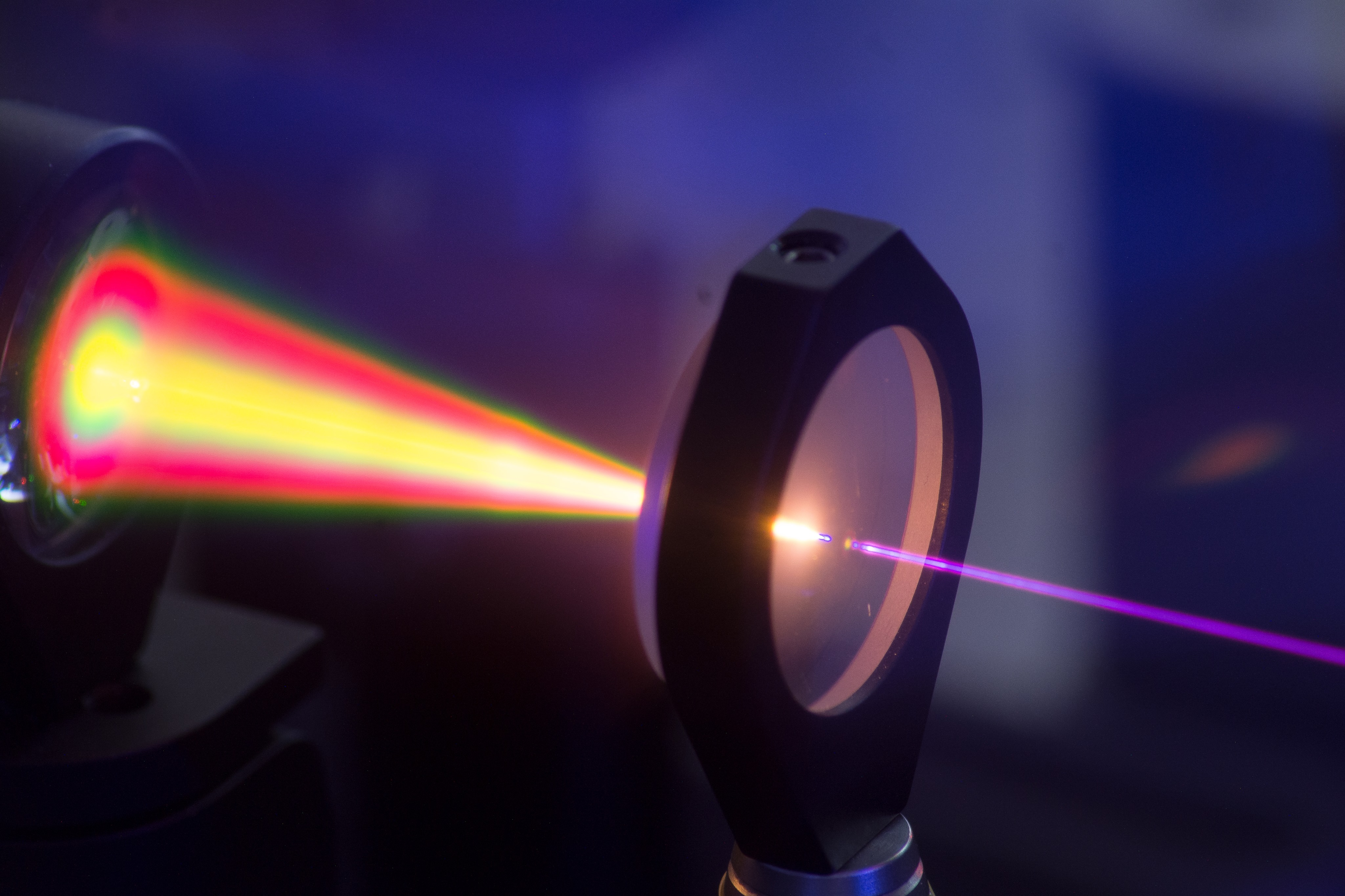 A supercontinuum generated by focusing an 800 nm femtosecond pulsed laser into a yttrium aluminium garnet crystal.